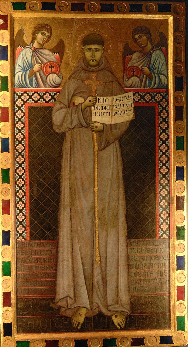 Master of St. Francis. Saint Francis and Angels, 13th cent. , Museo della Porziuncola, Assisi